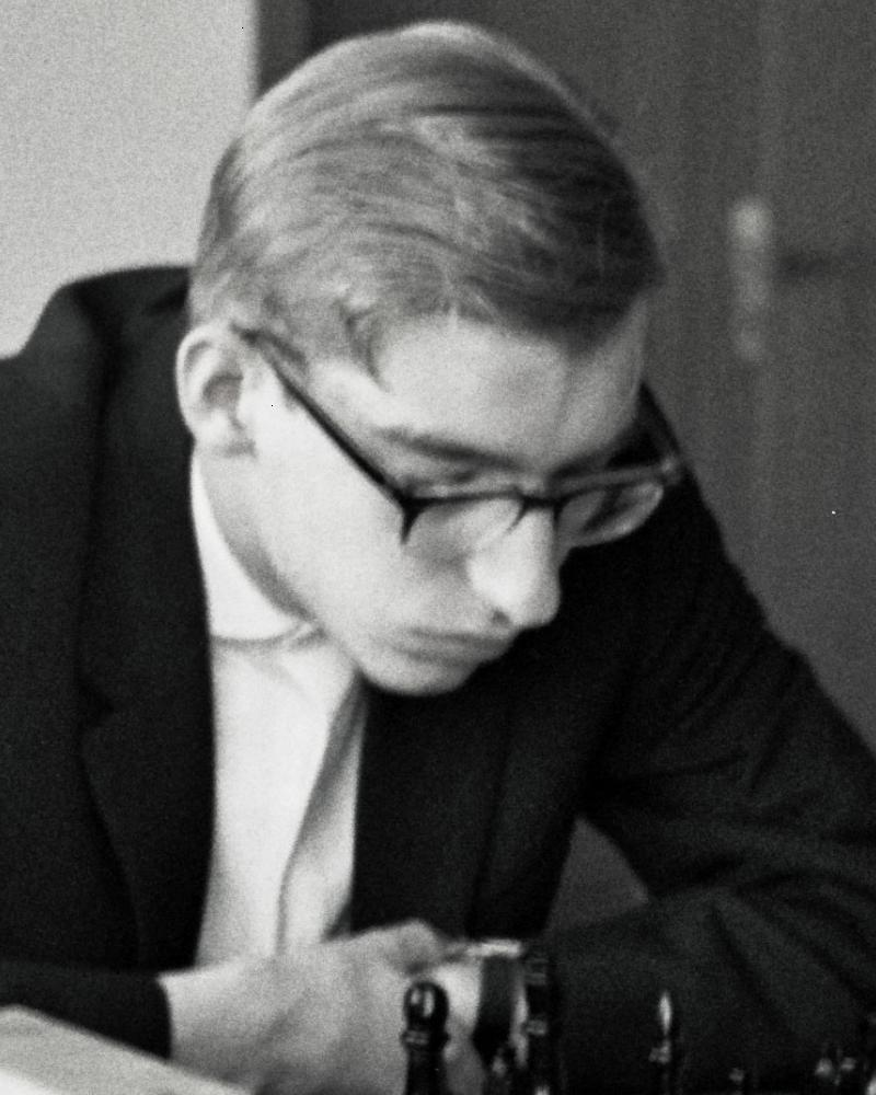 Robert Hübner, 1966 at Porz, Photographer Gerhard Hund.